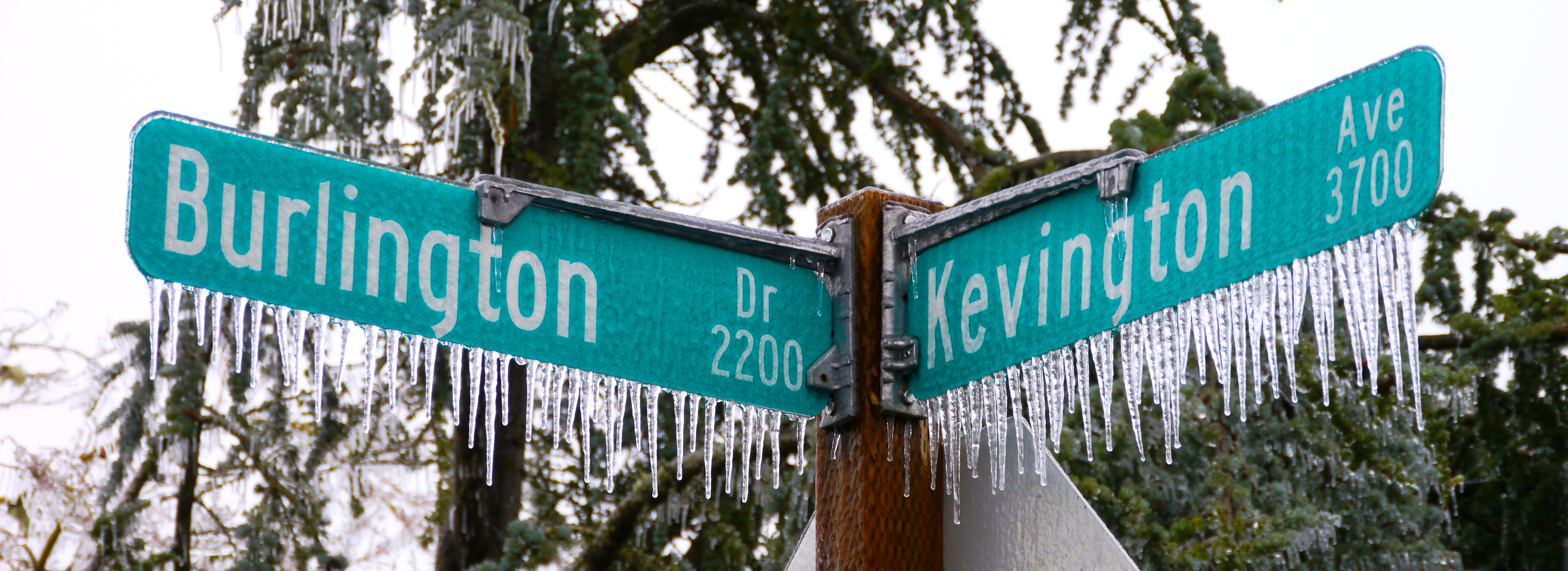 These street signs are in southwest Eugene, Oregon after a major ice storm. (